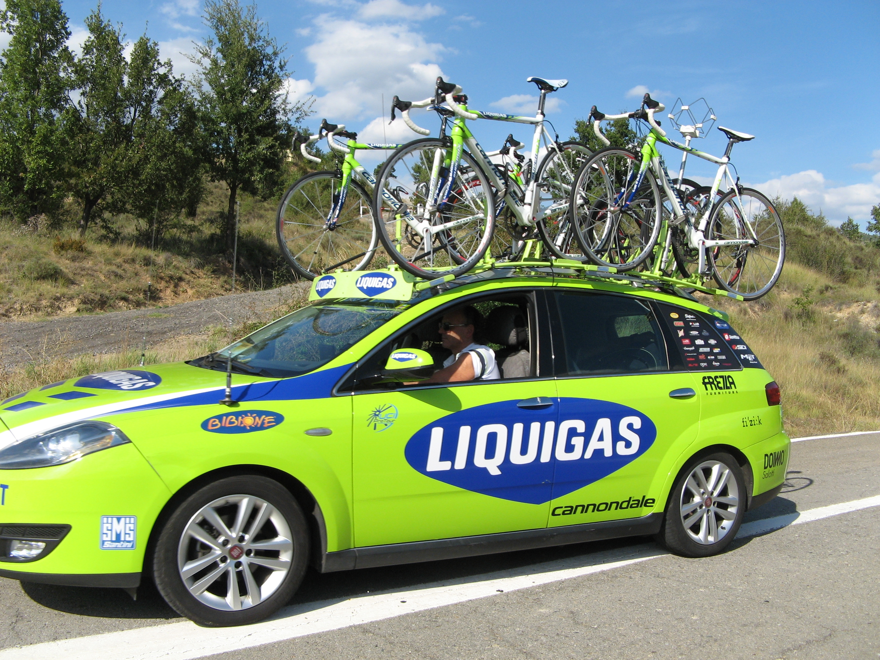 Liquigas team car, 2008 Vuelta a España, 9th stage, Alto Gallego, Spain.